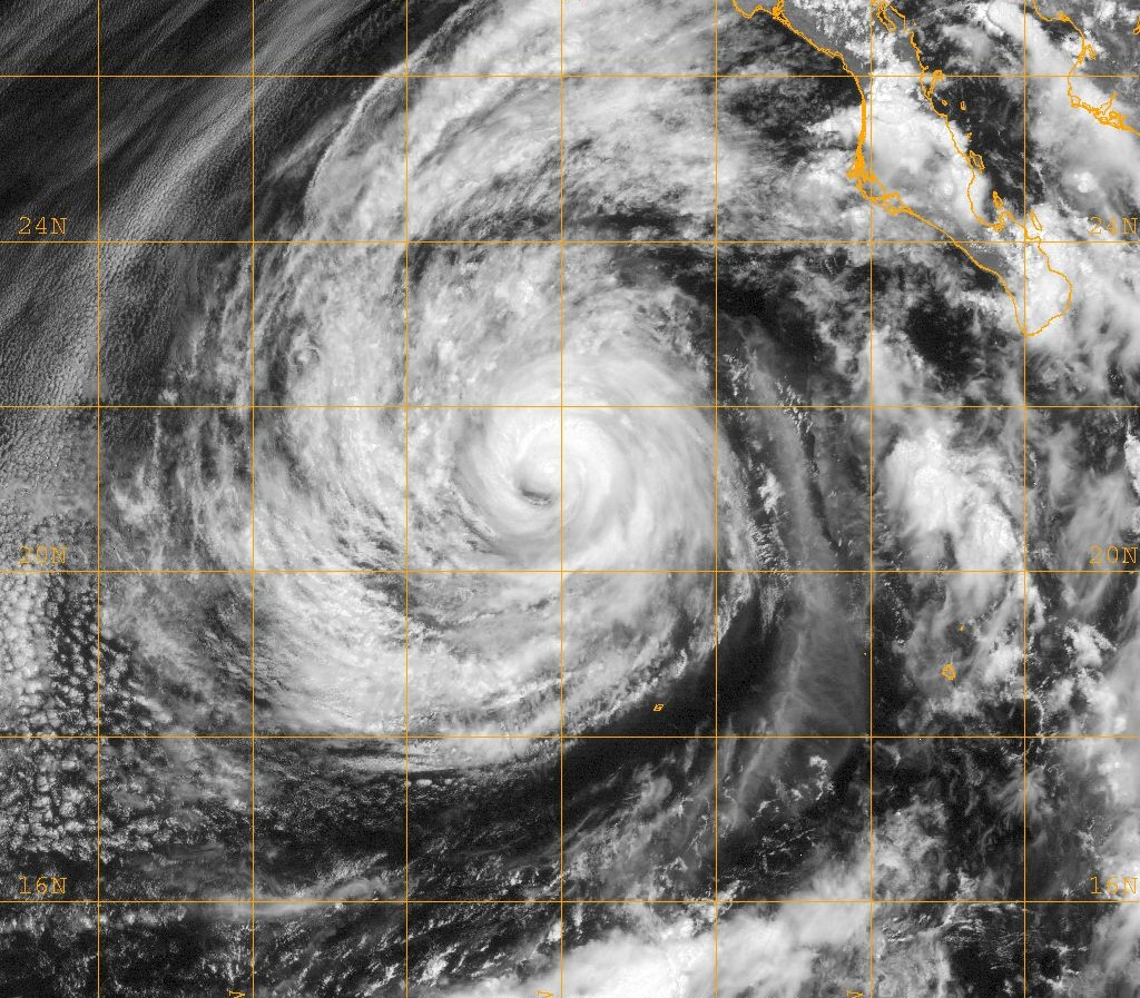 Hurricane Howard weakening off the coast of Baja California on September 3, 2004